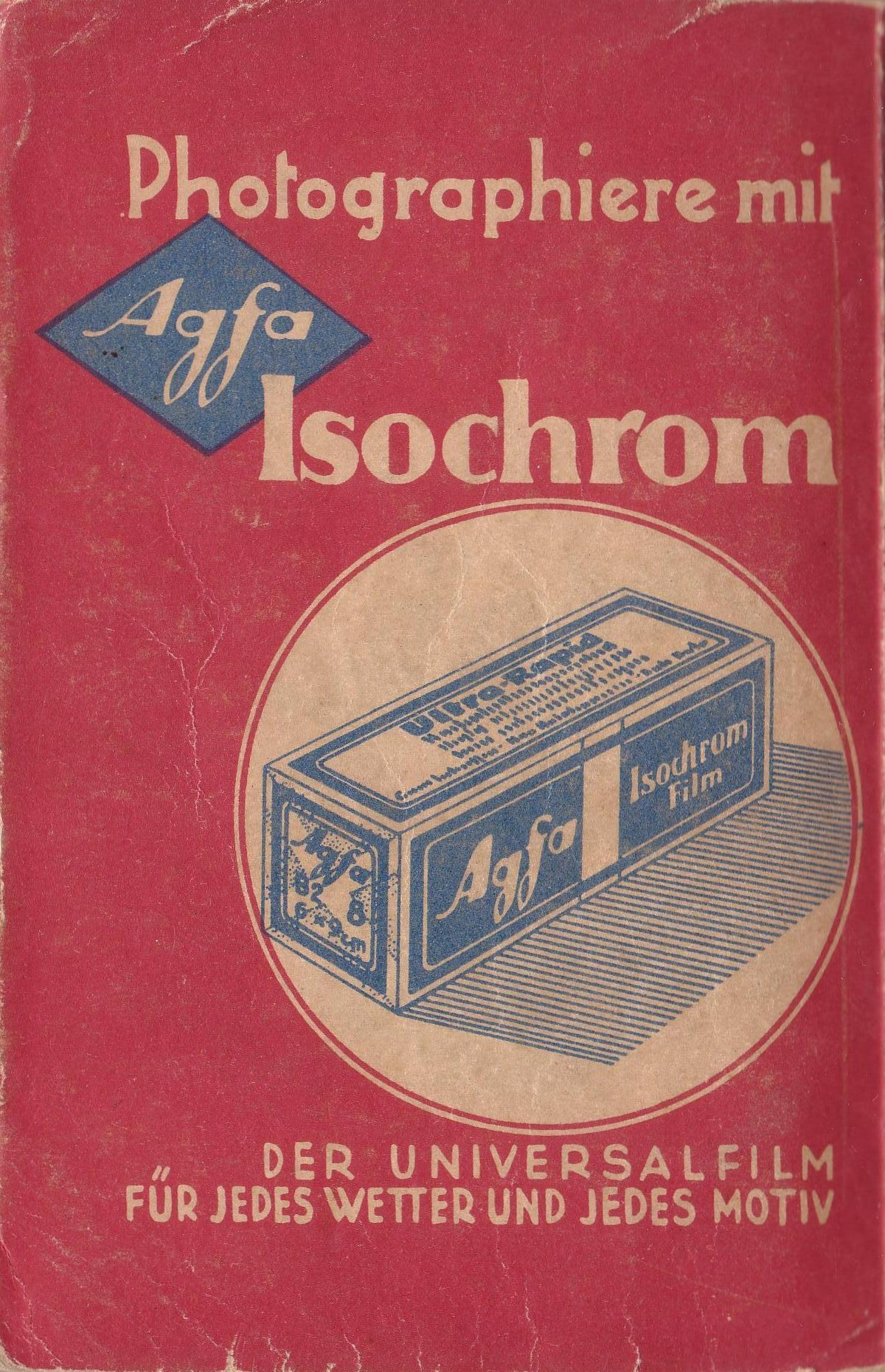 Backside of the book-cover of Baedekers Berlin 1933 with advertizement